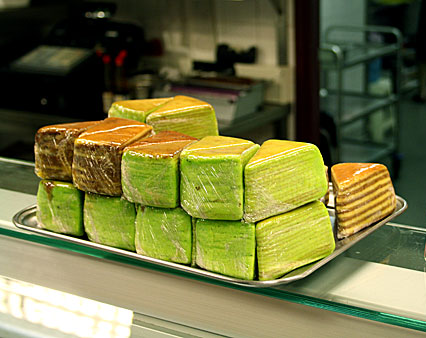 Spekkoek (kue lapis legit in Indonesia) is an Indo-European (Eurasian) fusion recipe for layered cake developed during the colonial era of the Dutch East Indies. This photograph was taken in one of the many Indo (Dutch-Indonesian) Tokos in Amsterdam, the Netherlands.